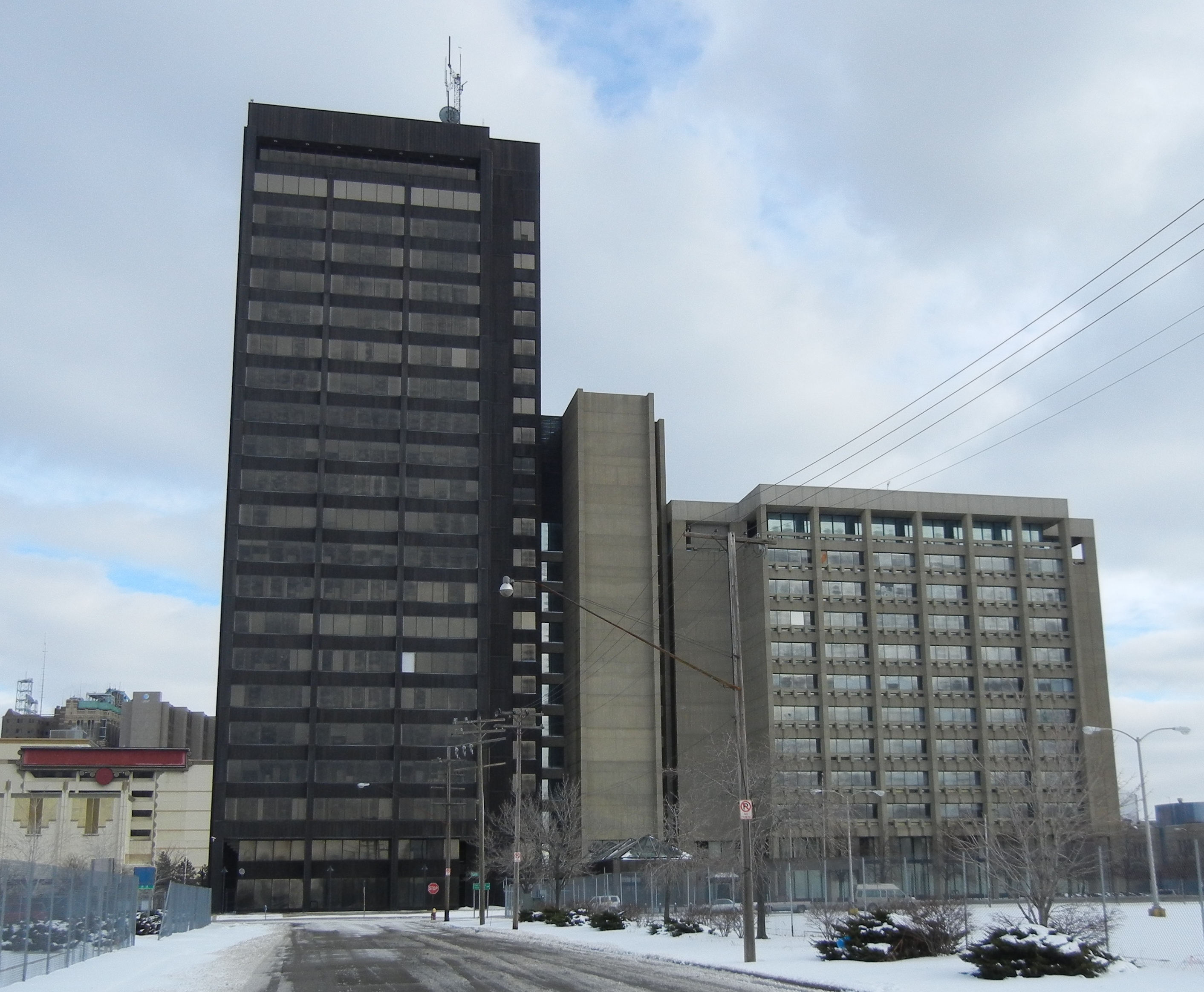 West facade of the Executive Plaza Building in Detroit, Michigan